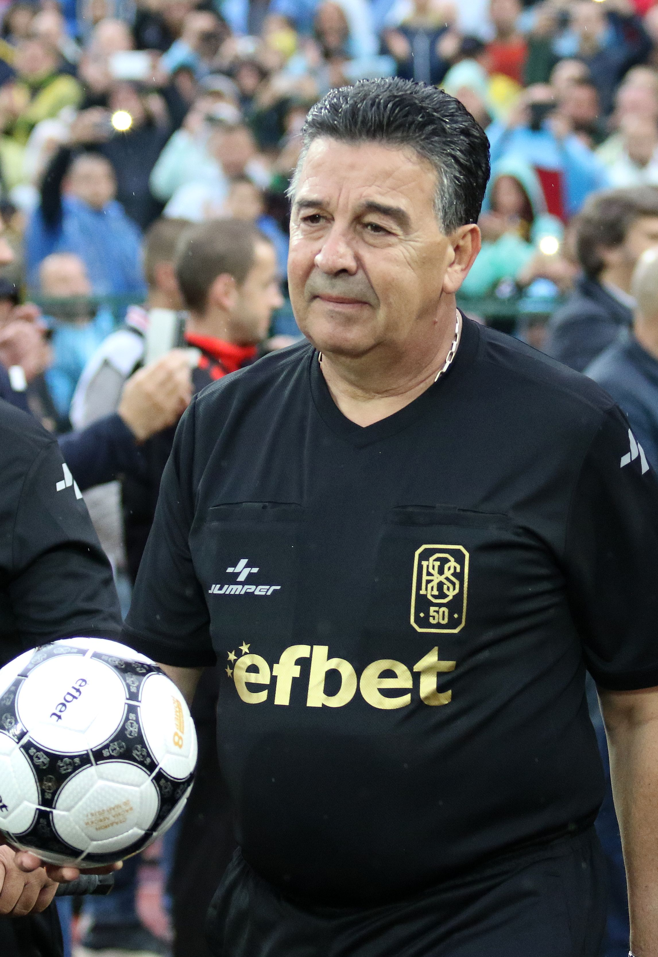 Atanas Uzunov (Bulgarian: Атанас Узунов) is a notable retired Bulgarian football referee, born in the city of Plovdiv, on 10 November 1955. His career started in 1979 and ended in the year 2000. During that time he was the first official for 189 matches (current record) in the Bulgarian A Professional Football Group, the fixture between Switzerland and the Netherlands in the UEFA Euro 1996 group stages and many UEFA Champions League group stage matches as well.